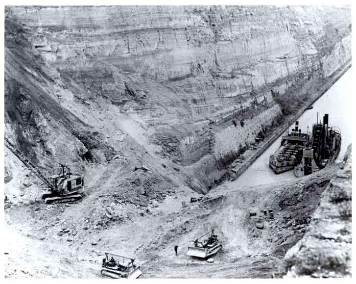 The dredge Poseidon (right center) at work clearing the Corinth Canal